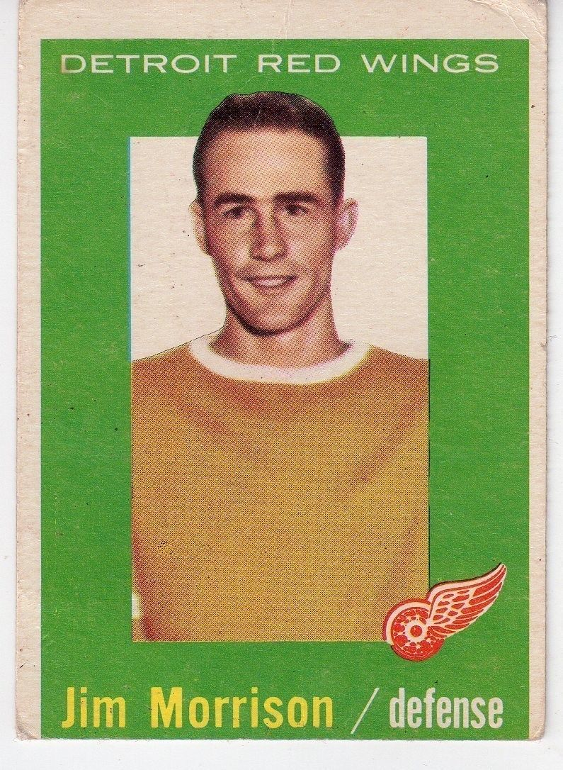 Jim Morrison